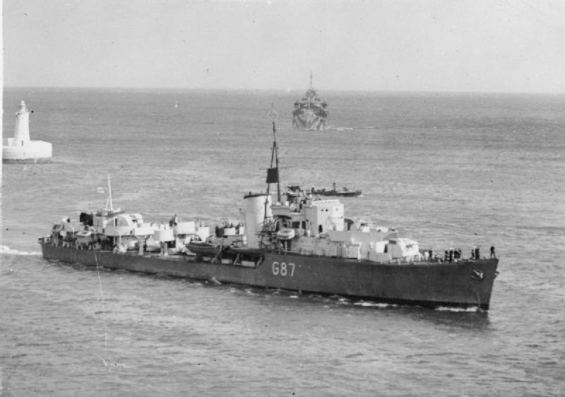 British destroyer HMS LANCE after leading a convoy into Malta, entering the Grand Harbour.